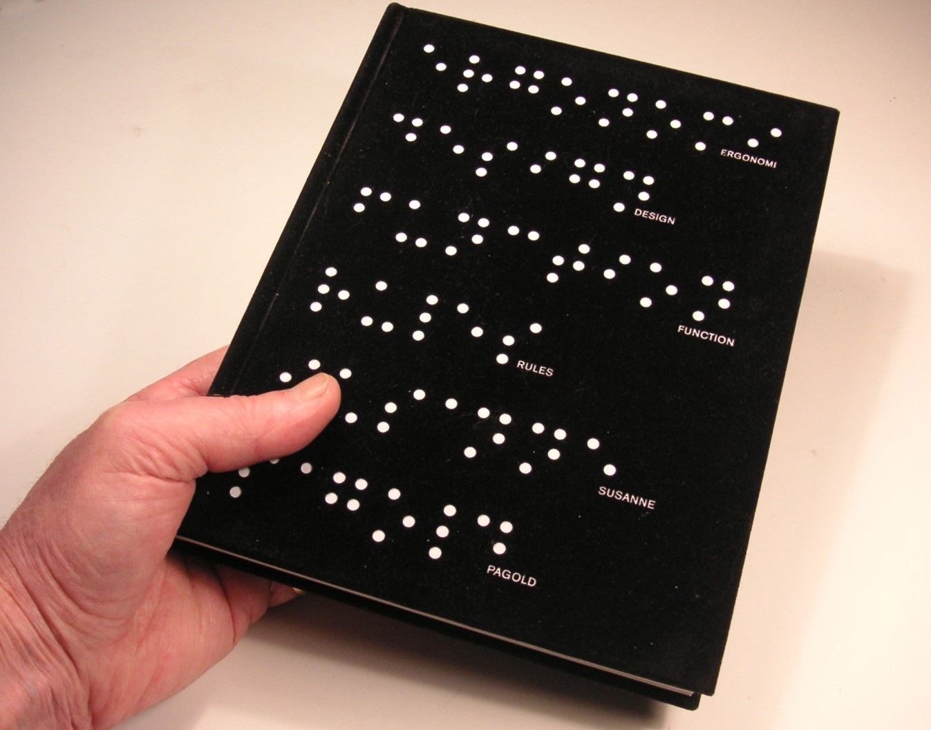 Ergonomidesign, prisbelönad bok "Function Rules"